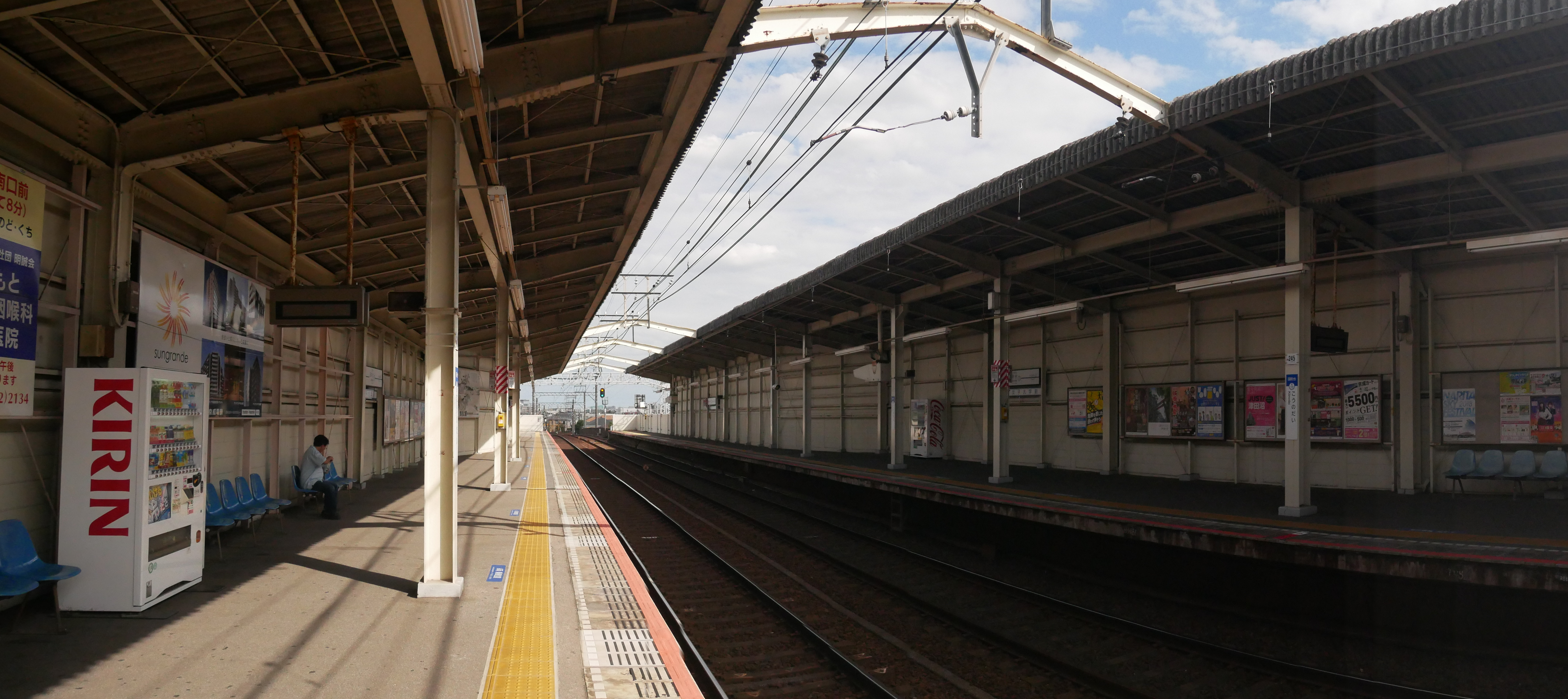 国府台駅のホーム (Konodai Station platforms)